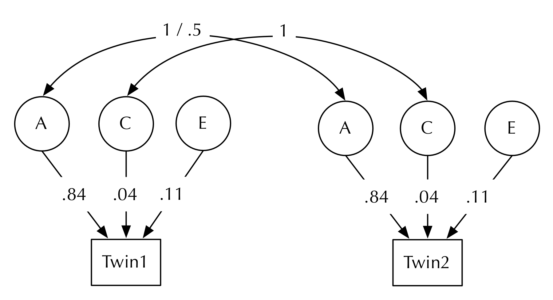 Standardized ACE model for Twin_study